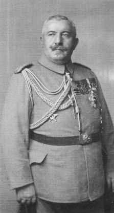 Ahmet Izzet Pasha (1864-1937), Prime Minister (Grand Vizier) of the Ottoman Empire for 25 days in 1918, during the last days of World War I